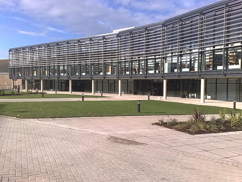 The new Checkland Building on the Falmer Campus at the University of Brighton, used by Faculty of Arts Brighton for departments of languages and literature